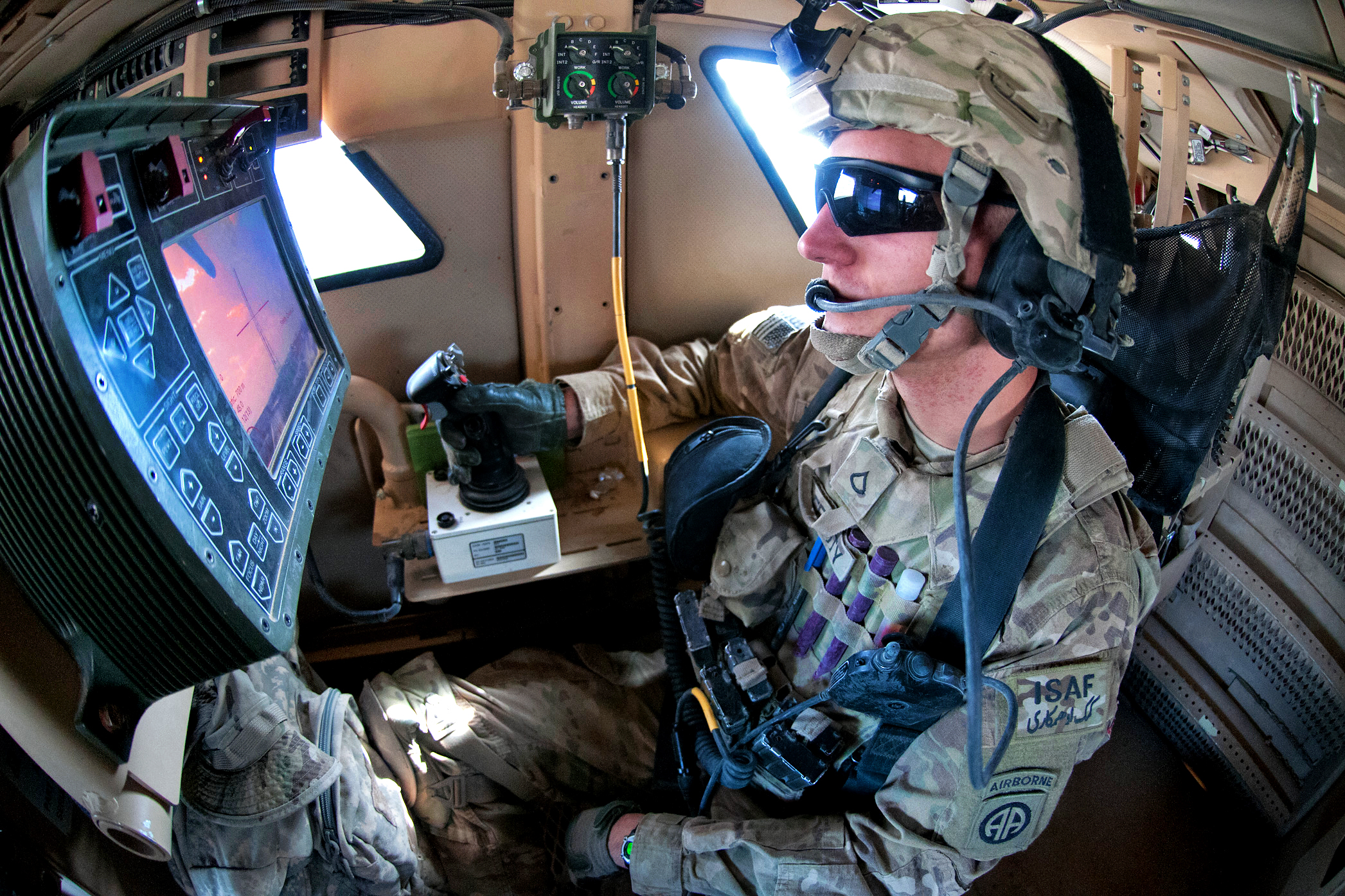 U.S. Army Pfc. Colin Rafferty operates a remote gun turret from within a mine-resistant, ambush-protected vehicle while on a mission to escort his battalion commander to a security meeting in the Qara Bagh district in Afghanistan's Ghazni province, July 16, 2012. Rafferty is assigned to the 82nd Airborne Division's 2nd Battalion, 504th Parachute Infantry Regiment, 1st Brigade Combat Team. U.S. Army photo by Sgt. Michael J. MacLeod